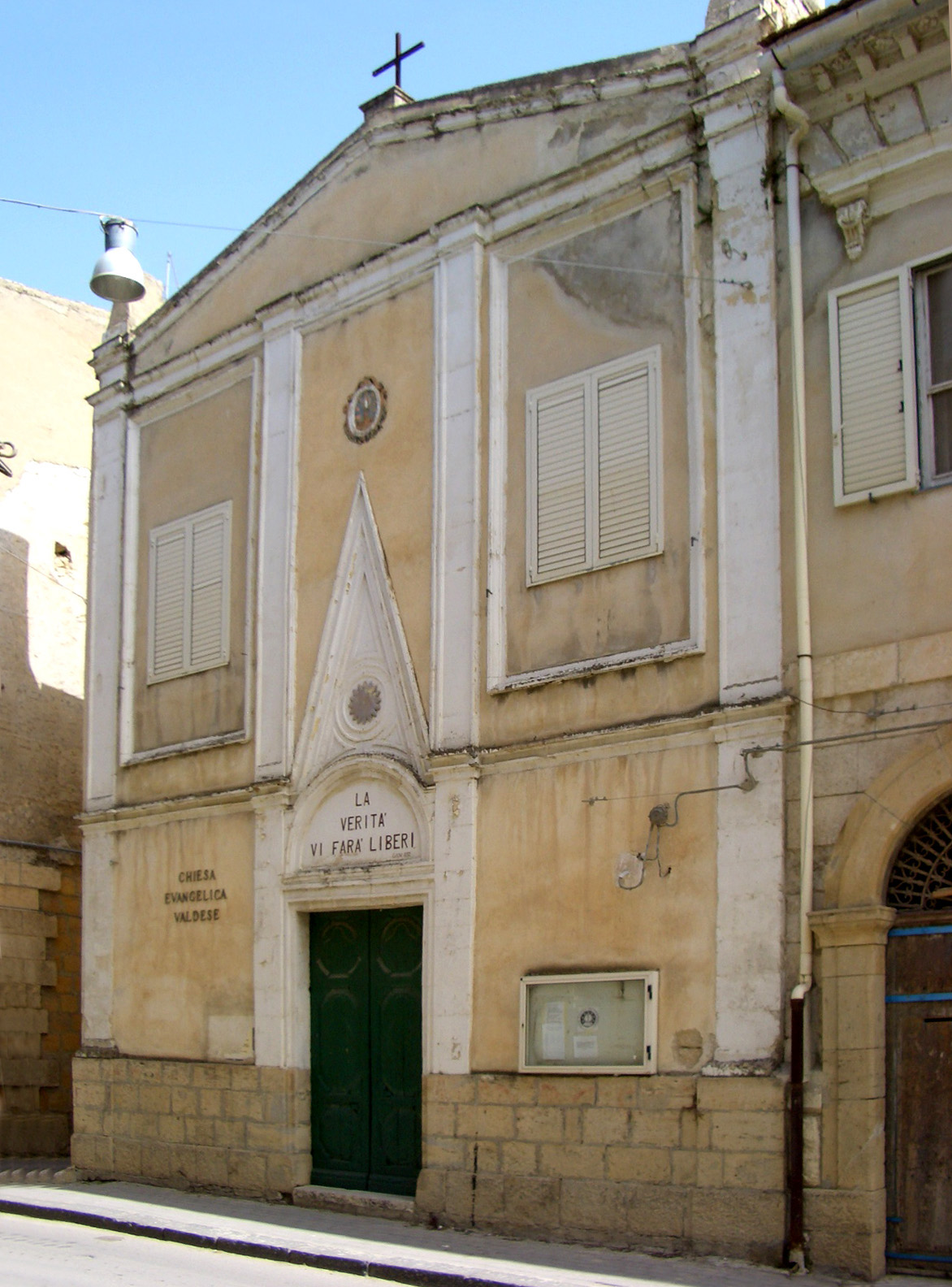 The Waldensian Church in Riesi (CL), Italy.